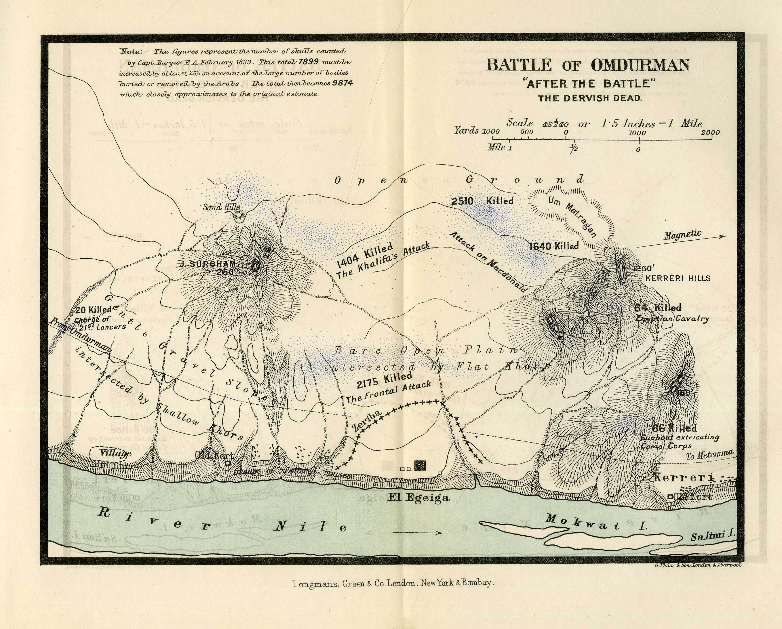 Battle of Omdurman The Dervish Dead